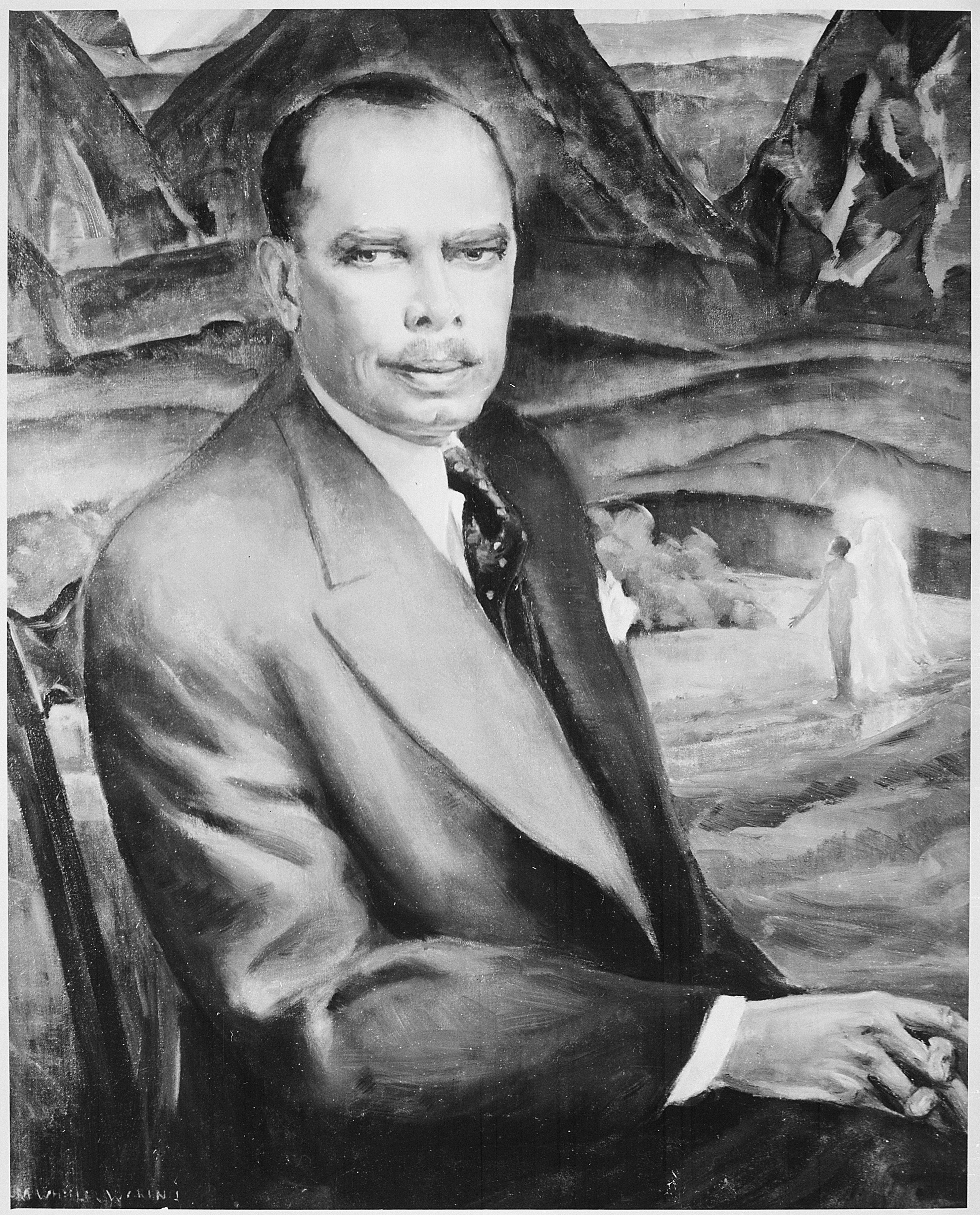 General notes: Painting